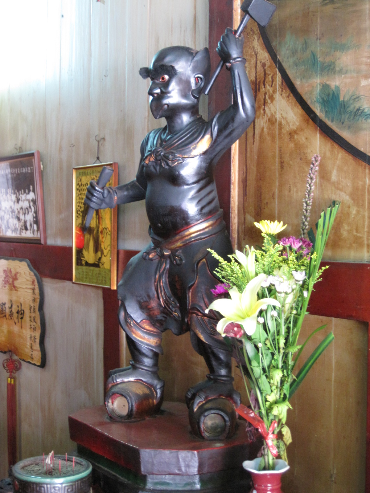 The Statue of Lei Gong in Tainan Fongshen Temple ( the temple of Wind-god).